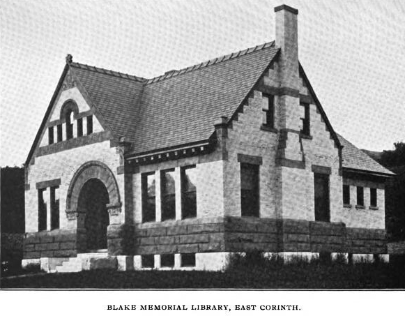 Library in Vermont